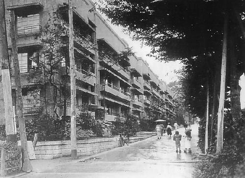 Aoyama Dojunkai Apartment building